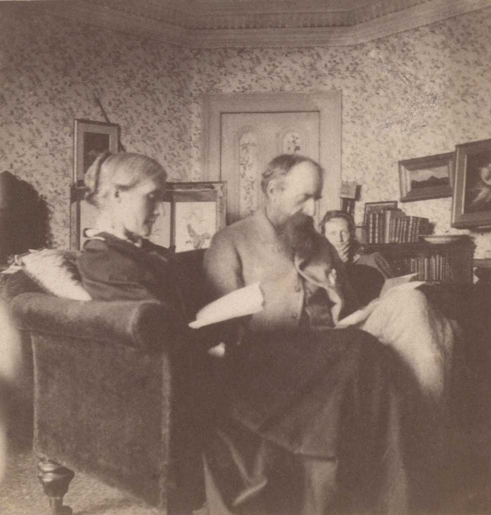 Julia and Leslie Stephen reading, Virginia in background, in the library at Talland House